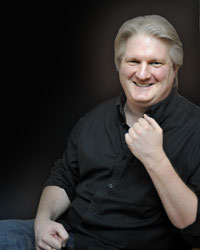 Small portrait of Record Producer Steve Anderson (cropped)